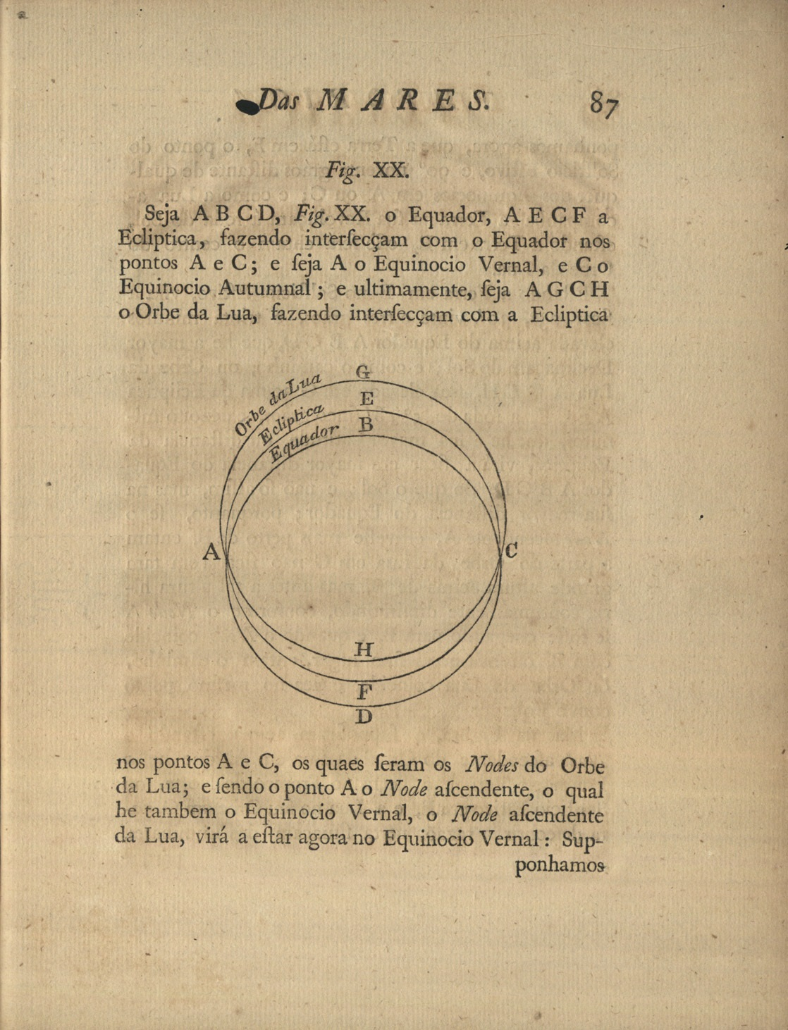 Theorica Verdadeira das Mares, Figure XX, page 87